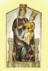 Santuario della Madre dei bimbi